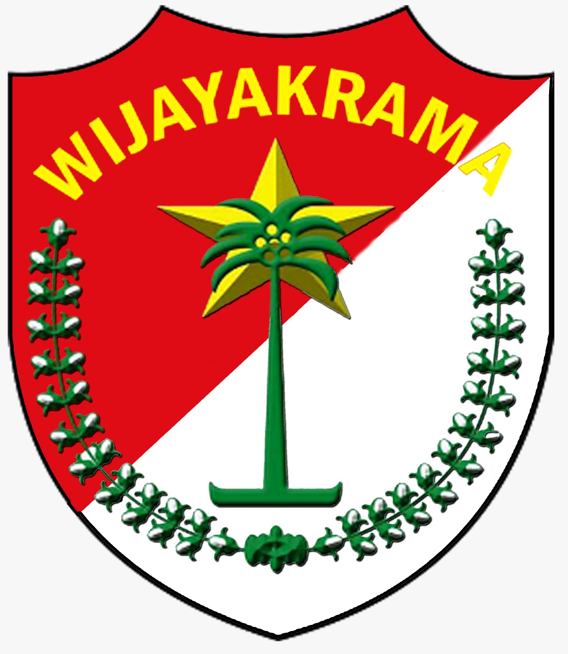 KODIM 0510 TIGARAKSA